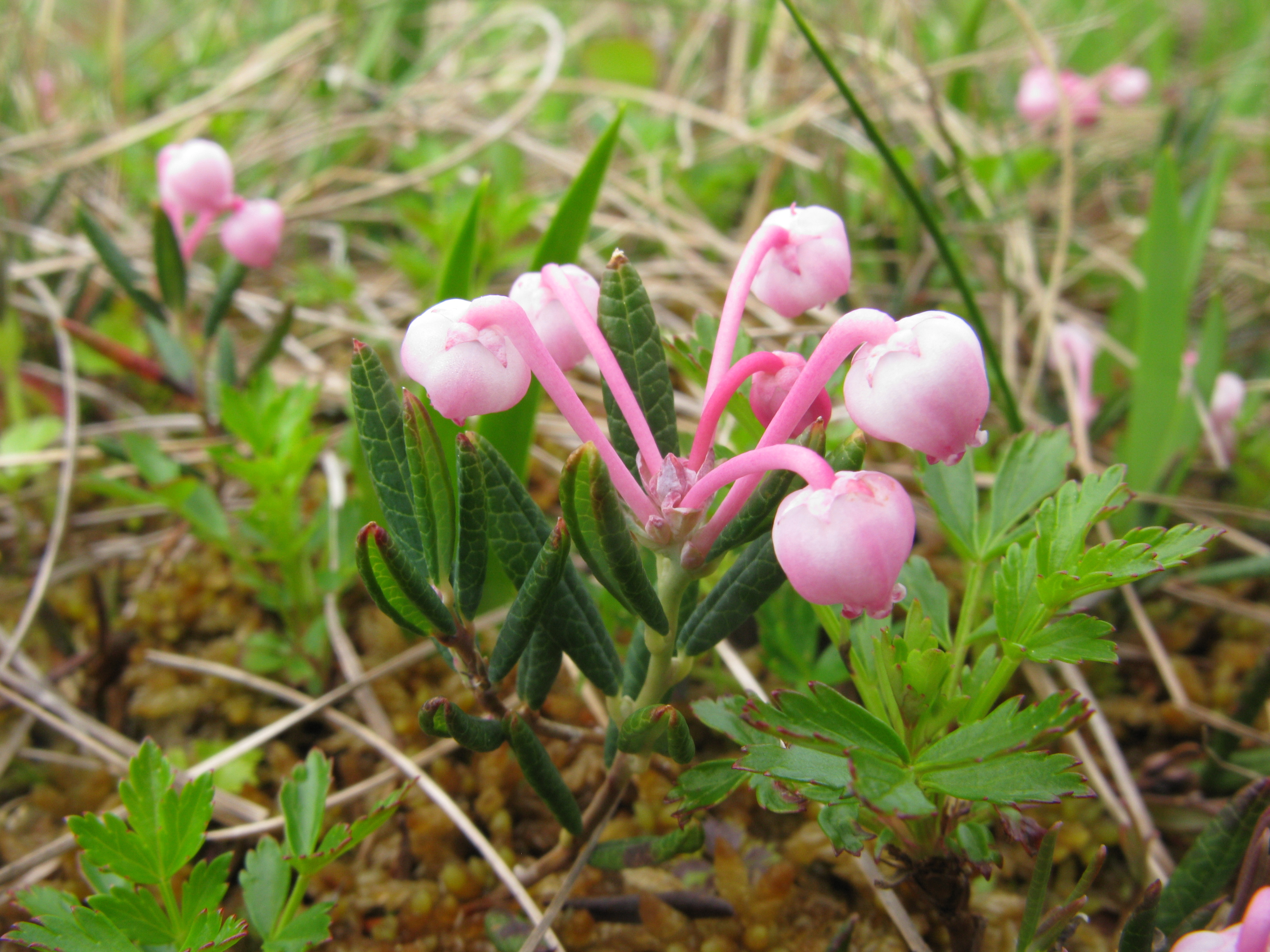 Andromeda polifolia, Aizu area, Fukushima pref., Japan